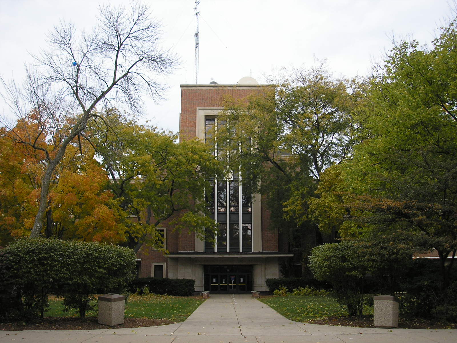 New Trier High School, Winnetka campus